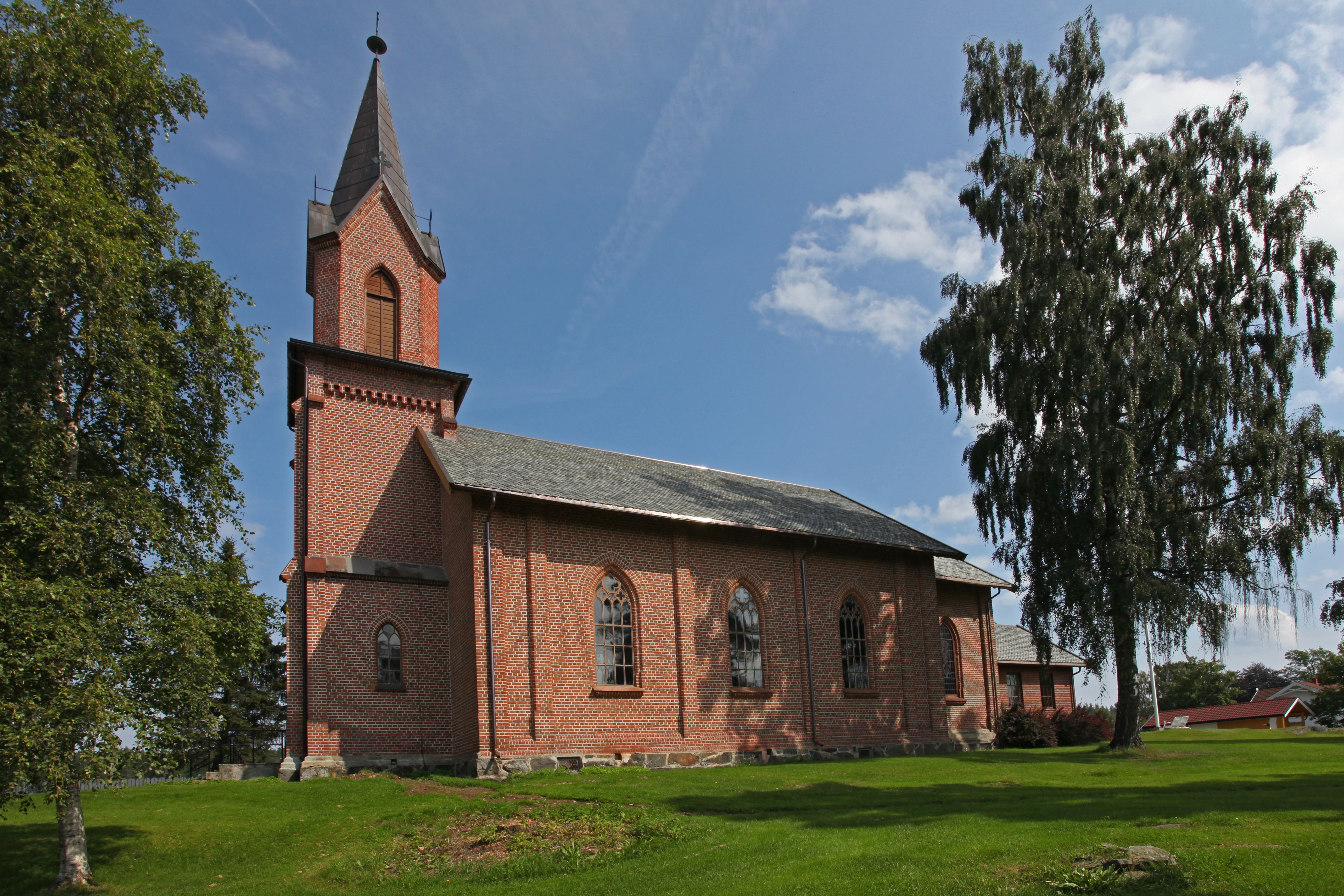 Picture of Snarum church (Modum, Buskerud - Norway)